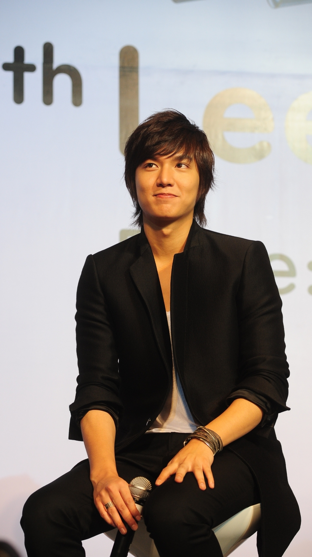 LG Optimus ambassador, Lee Min Ho, listening to a question from his fan